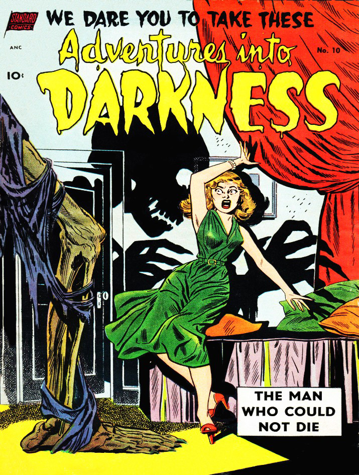 Cover of Adventures Into Darkness #10, June 1953